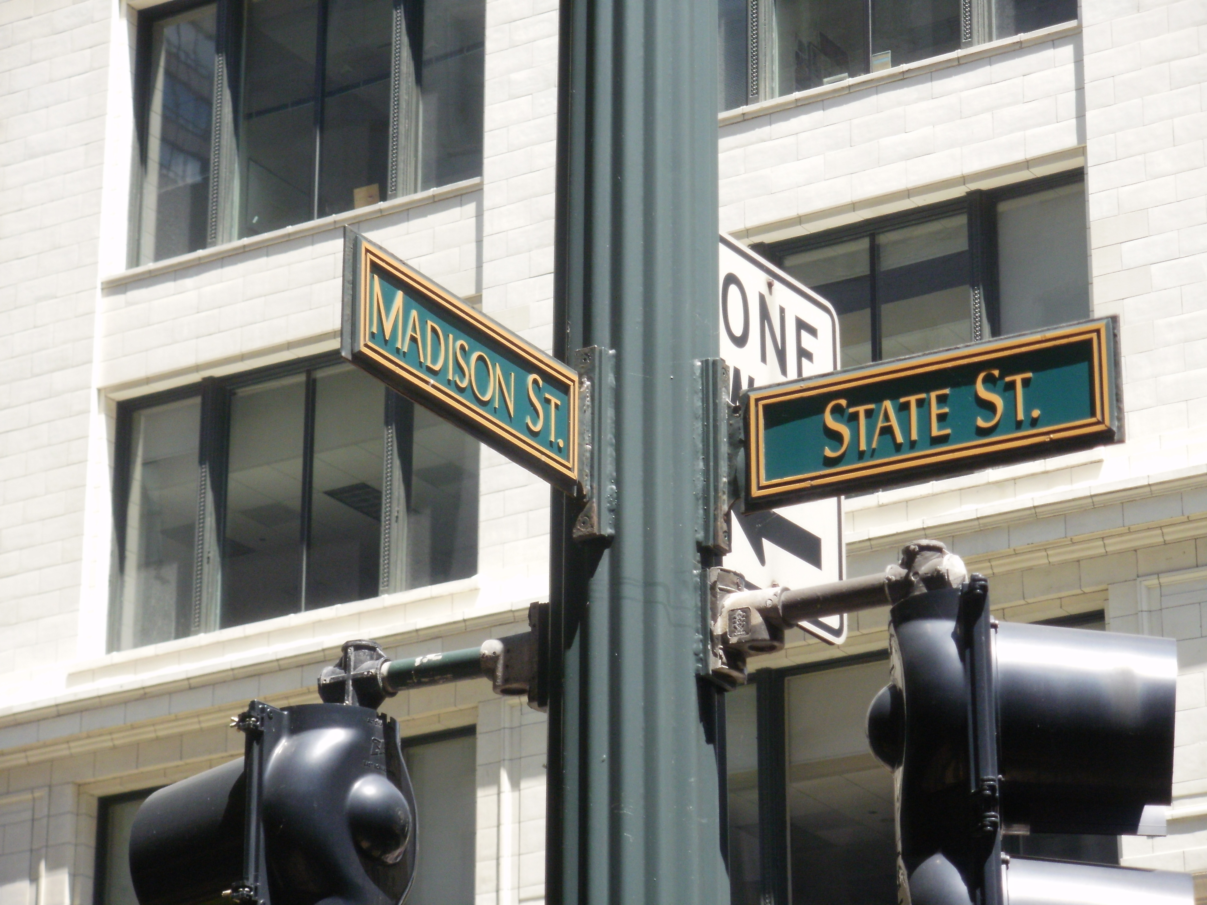 Crossroads of the Chicago Address system